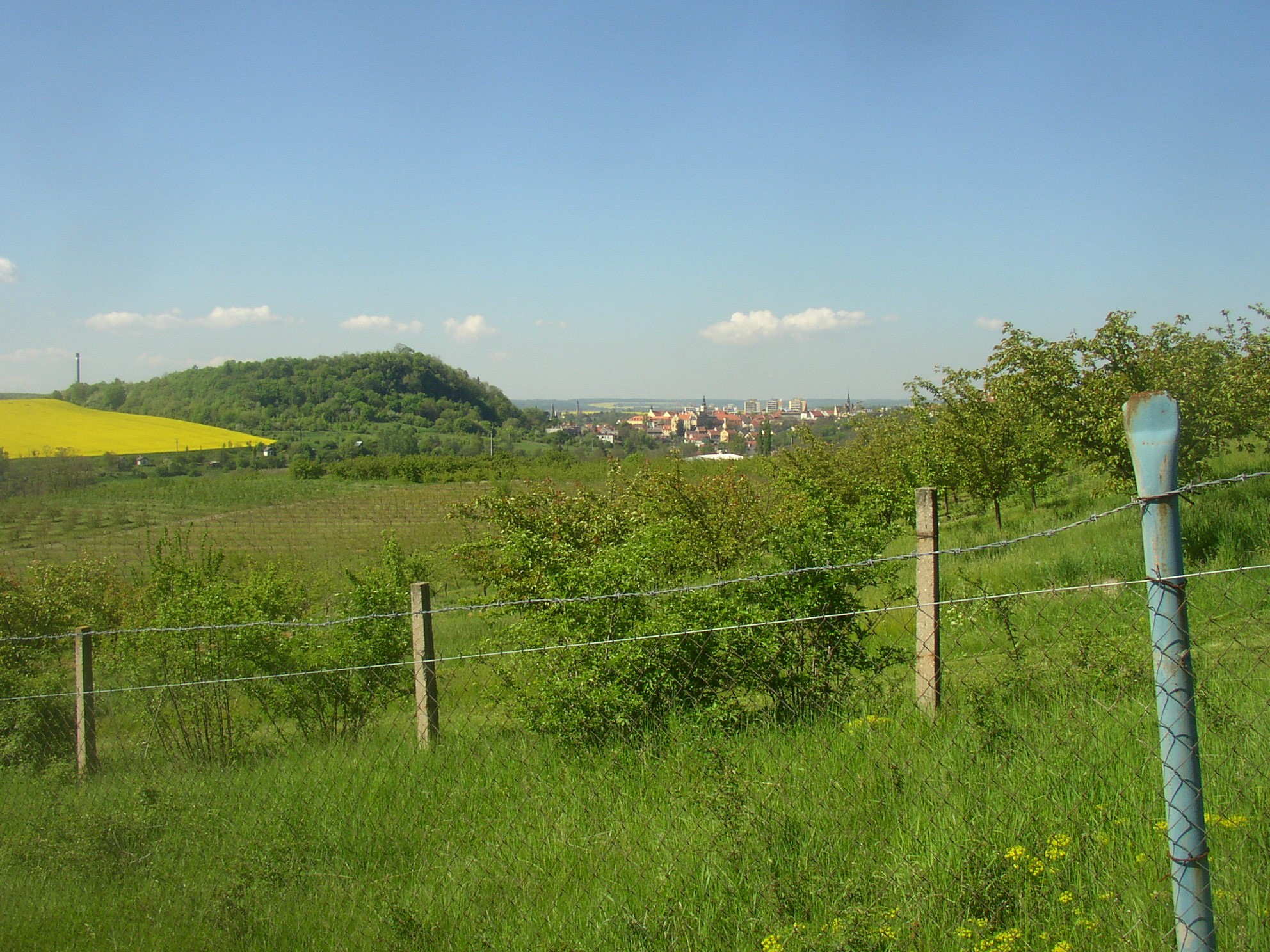 Slánská hora hill in Slaný town, Kladno District, Czech Republic. General view from the NNE.